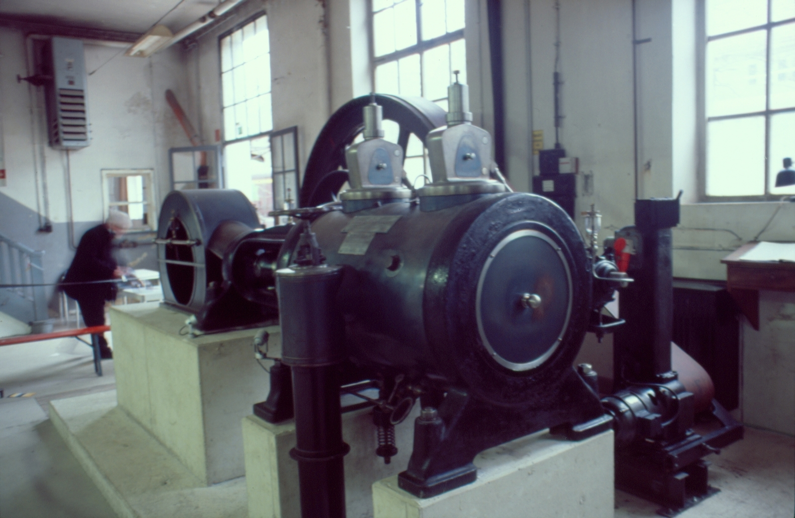 Raupach superheated static steam engine at the Augsburg Railway Park.